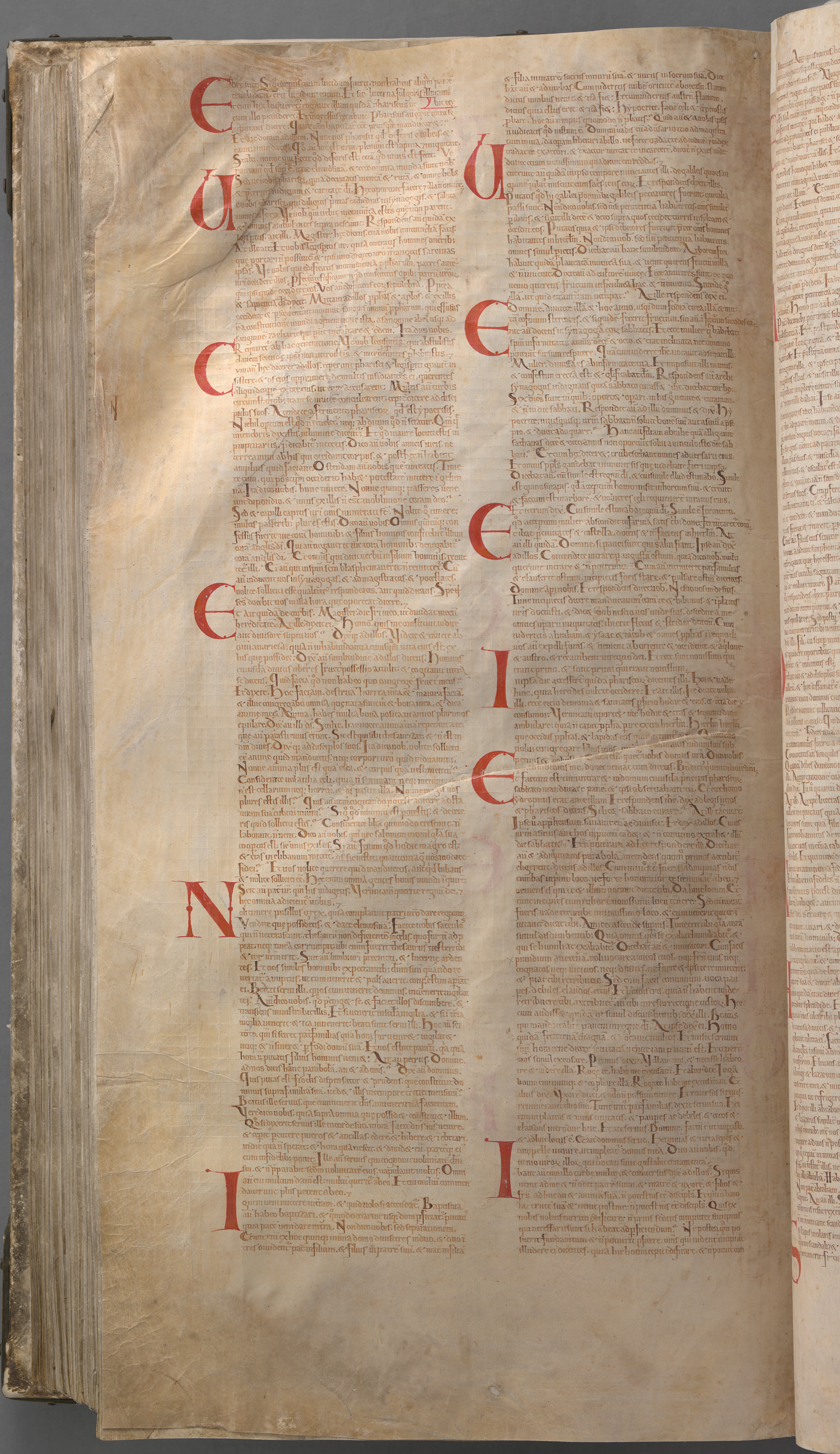 Giant Book) is the largest extant medieval manuscript in the world. It is also known as the Devil's Bible because of a large illustration of the devil on the inside and the legend surrounding its creation. It is thought to have been created in the early 13th century in the Benedictine monastery of Podlažice in Bohemia (modern Czech Republic). It contains the Vulgate Bible as well as many historical documents all written in Latin. During the Thirty Years' War in 1648, the entire collection was taken by the Swedish army as plunder, and now it is preserved at the National Library of Sweden in Stockholm, though it is not normally on display.